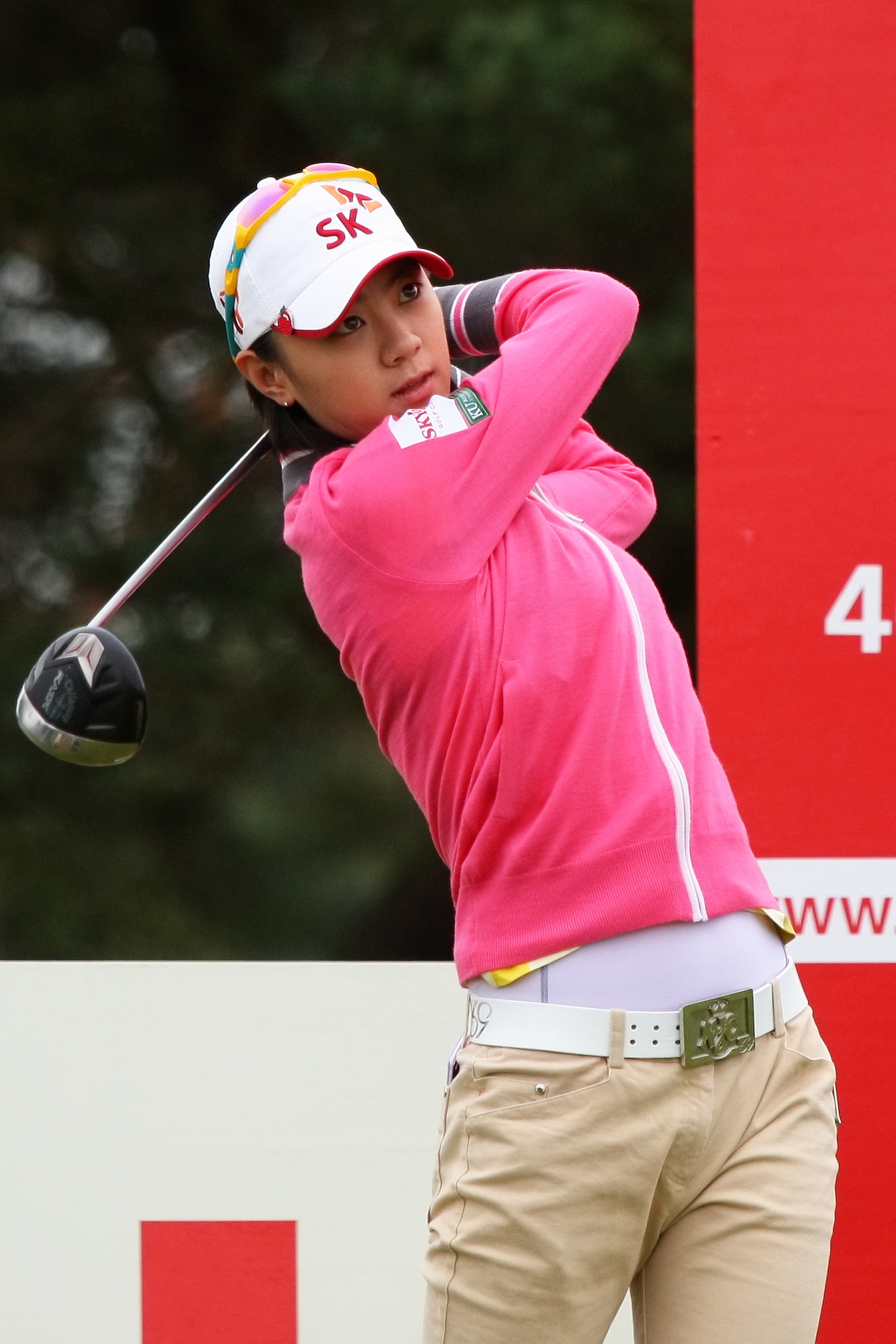 CARNOUSTIE, SCOTLAND - JULY 27: Choi Na Yeon of South Korea watches her tee shot on the 14th hole during the final practice round of the 2011 Ricoh Women's British Open at Carnoustie on July 27, 2011 in Carnoustie, Scotland. (Photo by Wojciech Migda)